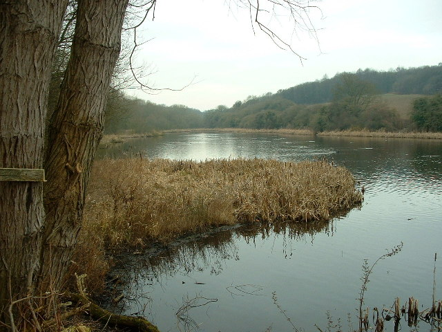 Sprotbrough Flash. Sprotbrough Flash - this expanse of open water next to the River Don, was created by subsidence from coal mining at Cadeby and Denaby Main.